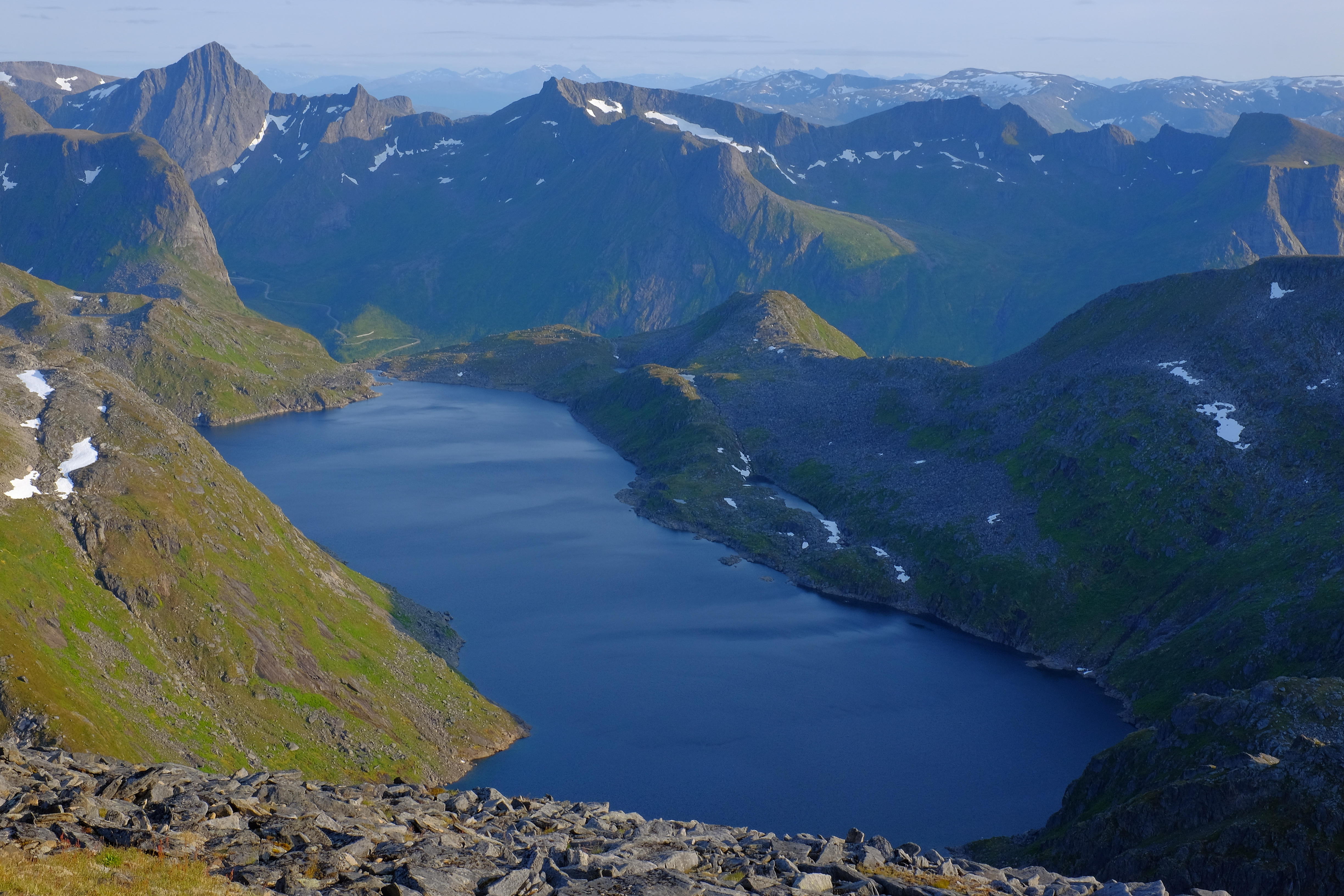 View from Roalden peaks right above Senjahopen in Berg municipality